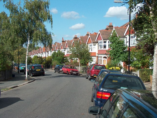 Dovercourt Road, Dulwich. Typical suburban street of nearly identical semi-detached houses.